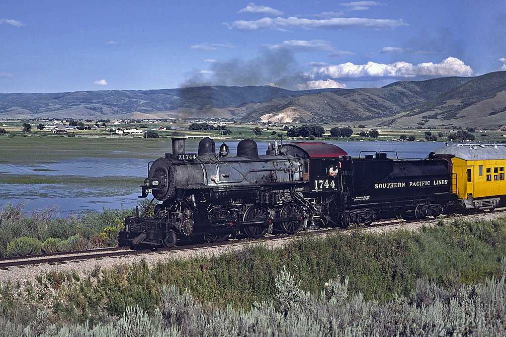 ex-SP 2-6-0 #1744 Working on the "Heber Creeper" along side deer valley reservoir in August of 1982